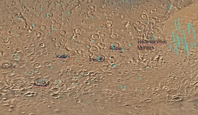 Map of Noachis quadrangle with labels. The small, colored rectangles represent image footprints for the narrow angle camera on the Mars Global Surveyor. Some are about 1 mile wide, the otheers are about 2 miles wide. The map was made by the U.S. Geological survey for NASA.